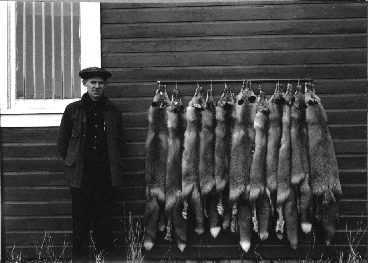 Fox trapping on Unimak